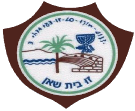 Coat of Arms of the municipality of Bet She'an